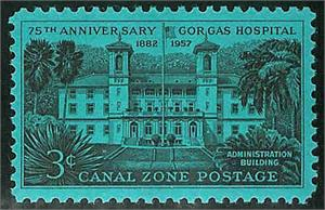 Black on royal blue three cents postage stamp of the Canal Zone for the 75th Anniversary of Gorgas Hospital (1882-1957)